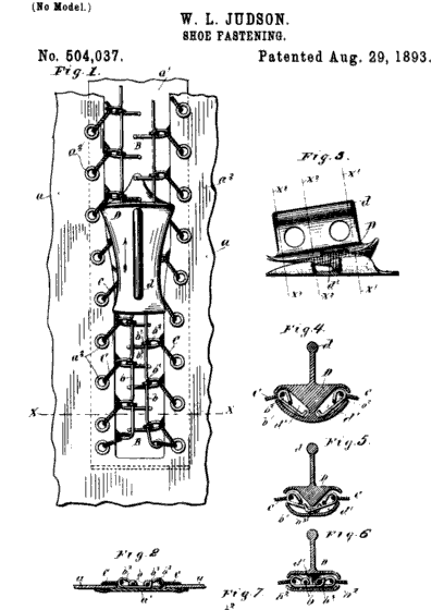 Whitcomb Judson's improved shoe fastener 1893